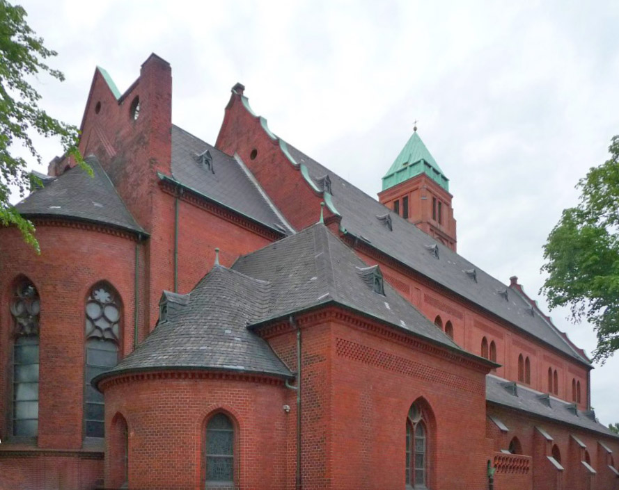 Church St. Bonifatius in Hamburg